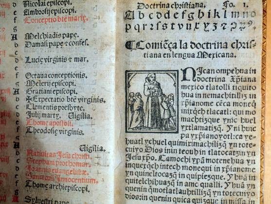 Photo of the manuscript of Doctrina Christiana by Pedro de Gante composed ca. 1547.